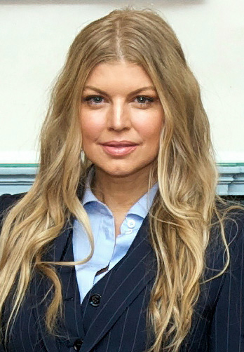 Avon's Global Ambassador Fergie This file has been extracted from another file: Deputy Secretary Burns, Vital Voices CEO Nelson, Avon Global Ambassador Fergie, Avon Products CEO McCoy, and Assistant Secretary Zerya Pose for a Photo.jpg